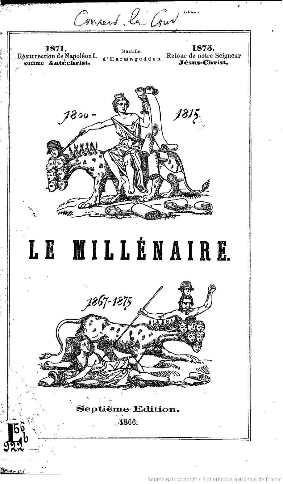 From Charles Franz Zimpel, Le Millénaire, seventh edition, published in 1866 in Frankfurt [1]